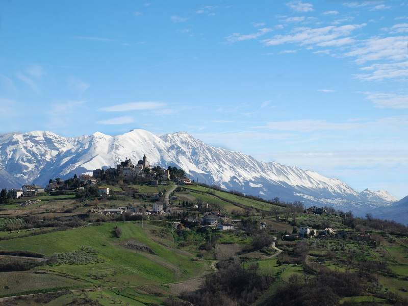 pietranico - panorama maiella